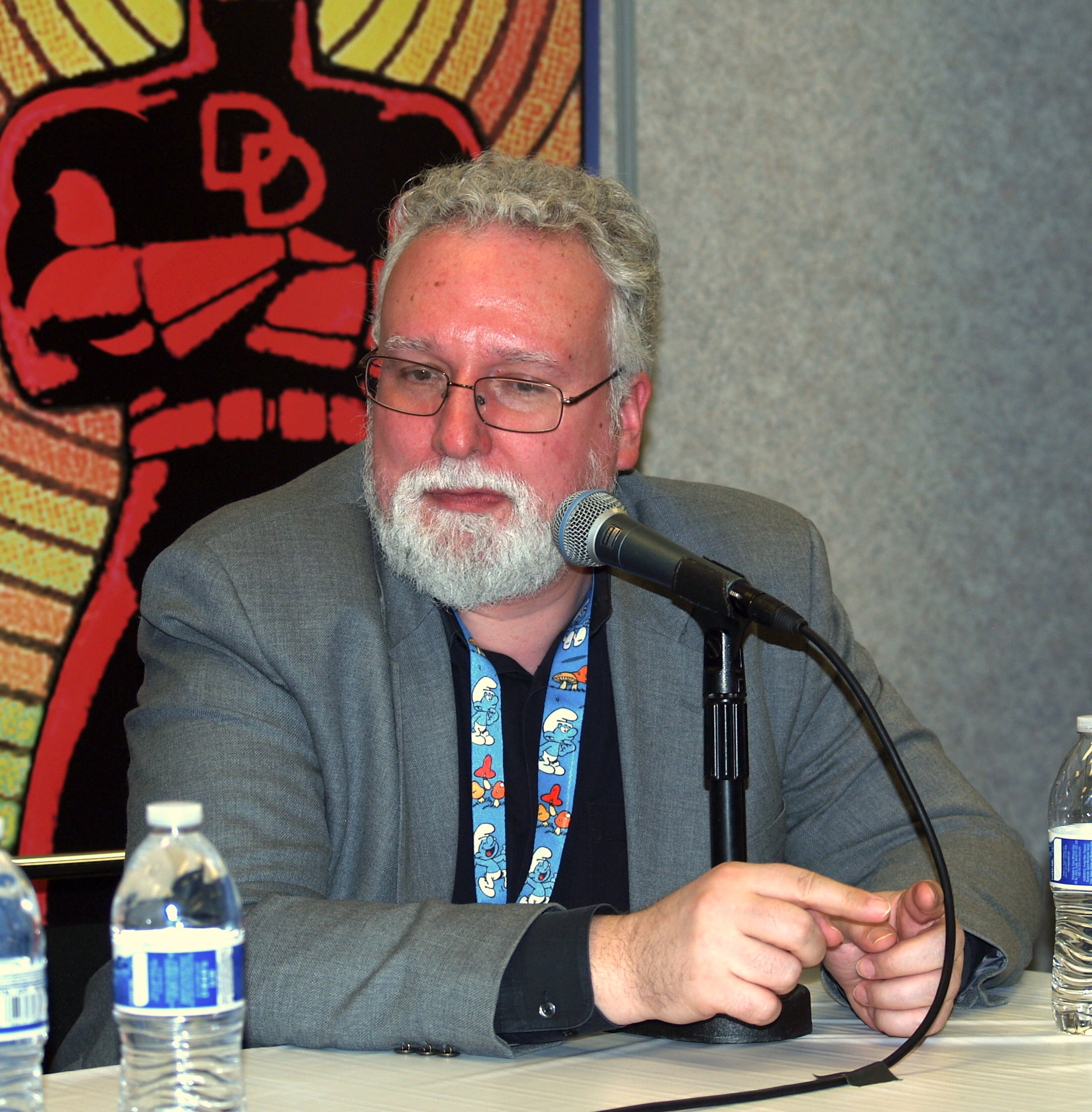 Editor Jim Salicrup speaking on a "Marvel in the 80s" panel at the Meadowlands Exposition Center in Secaucus, New Jersey on April 11, 2015, Day 1 of the 2015 East Coast Comicon. This photo was created by Luigi Novi. It is not in the public domain, and use of this file outside of the licensing terms is a copyright violation.